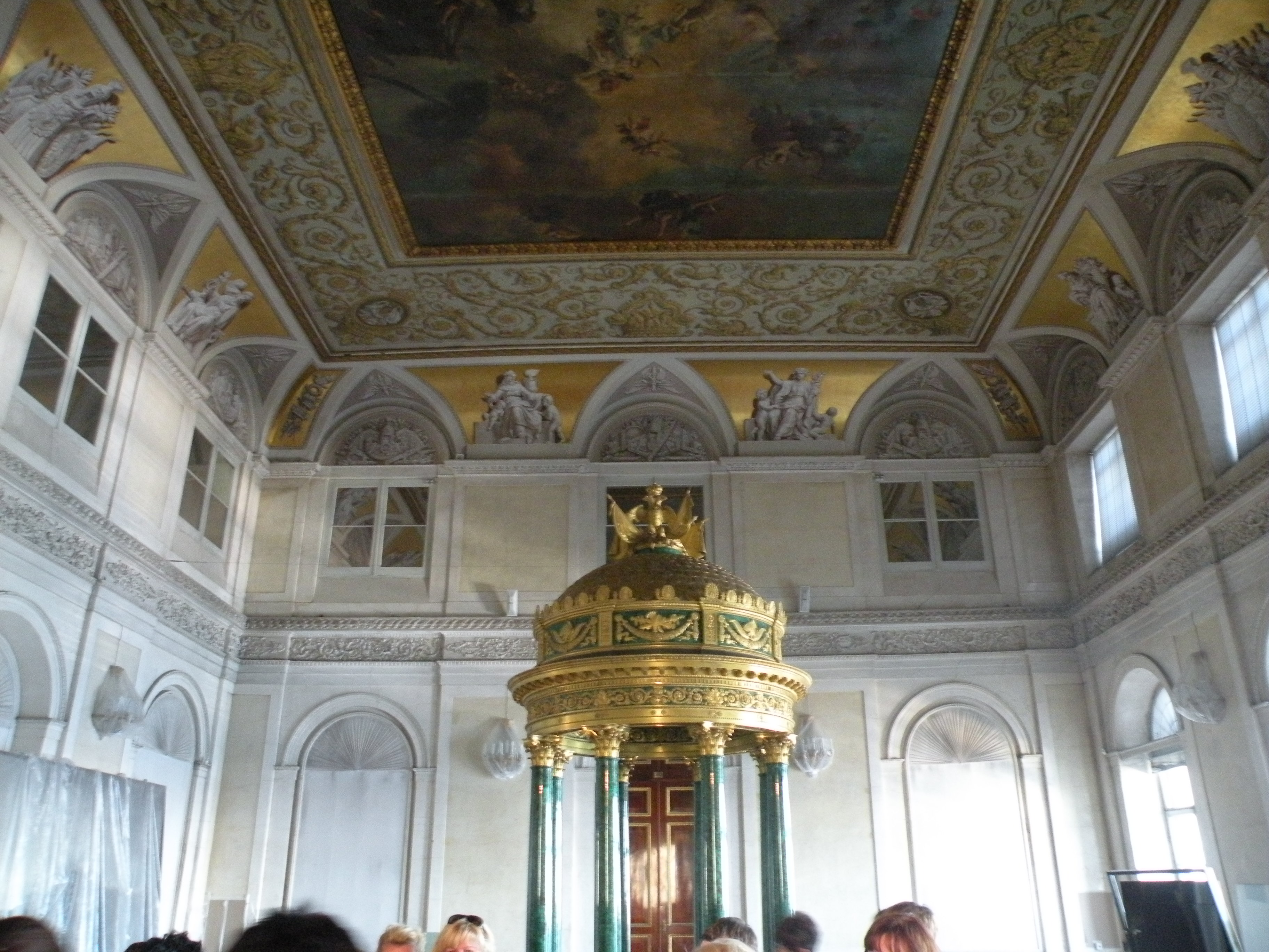 Interior of the Hermitage